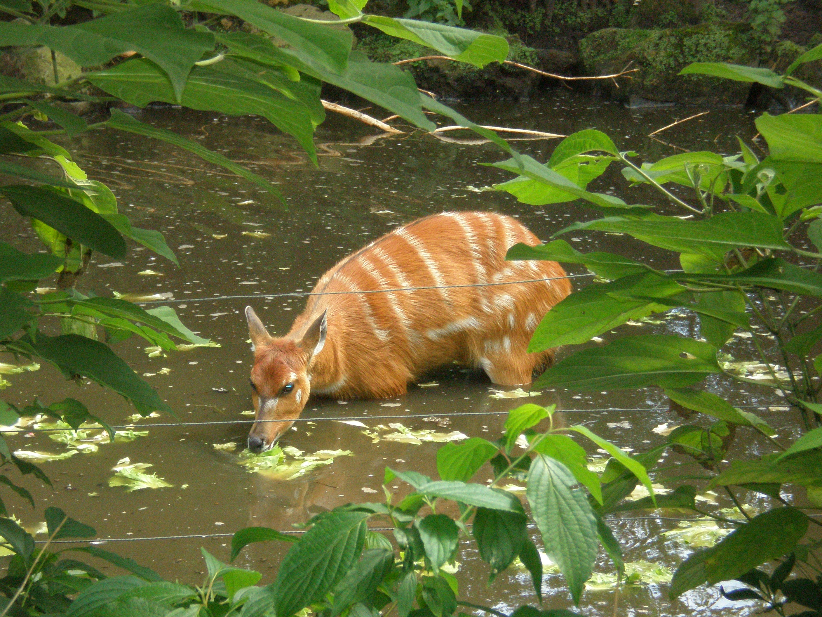 The sitatunga (Tragelaphus spekii).